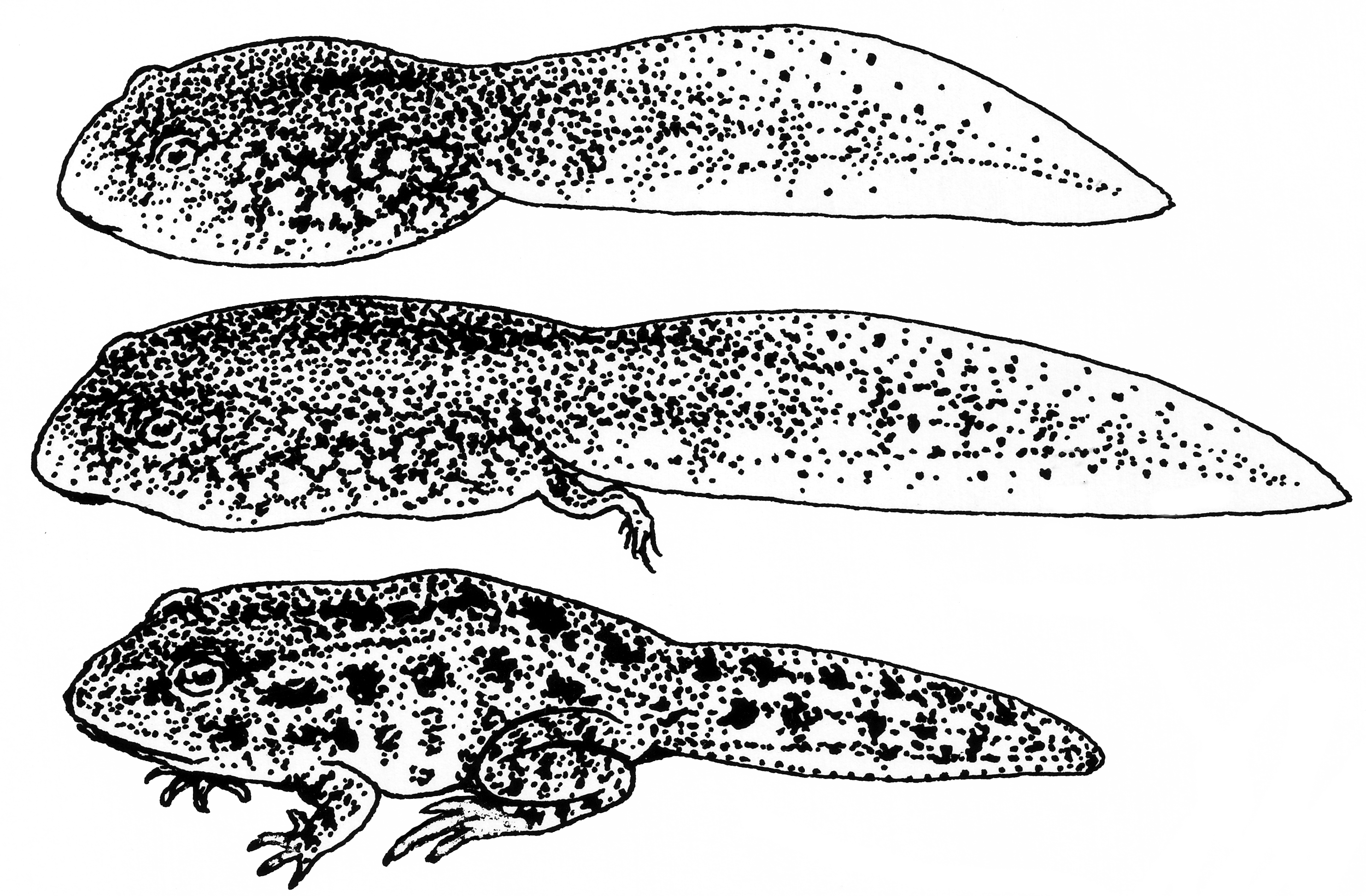 Line art representation of Tadpole